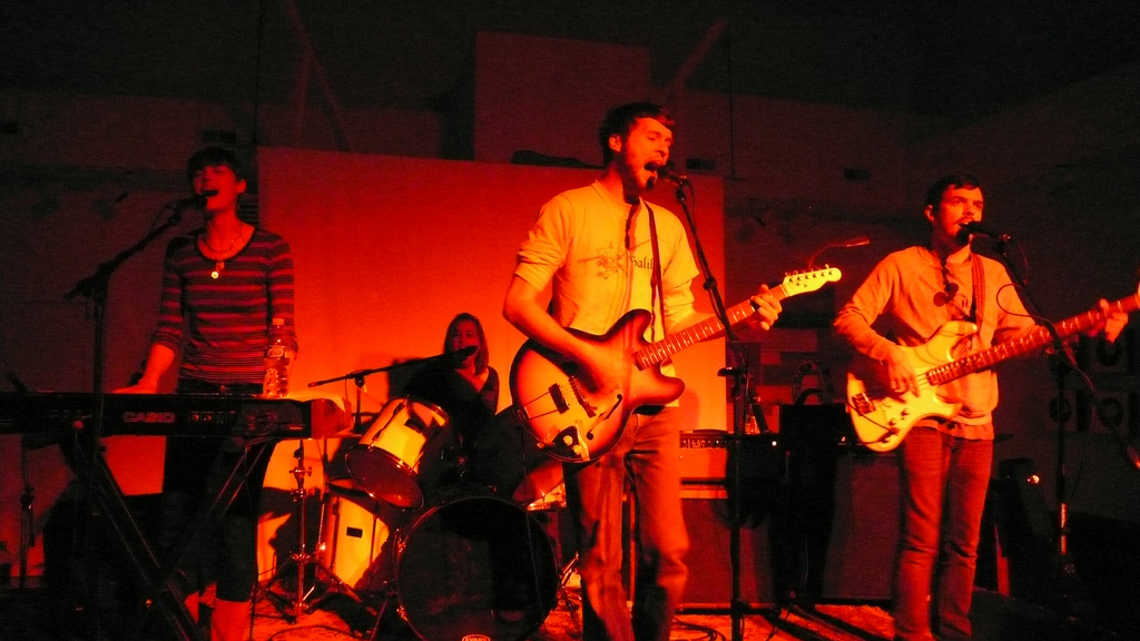 A photograph of the band Bodies of Water performing